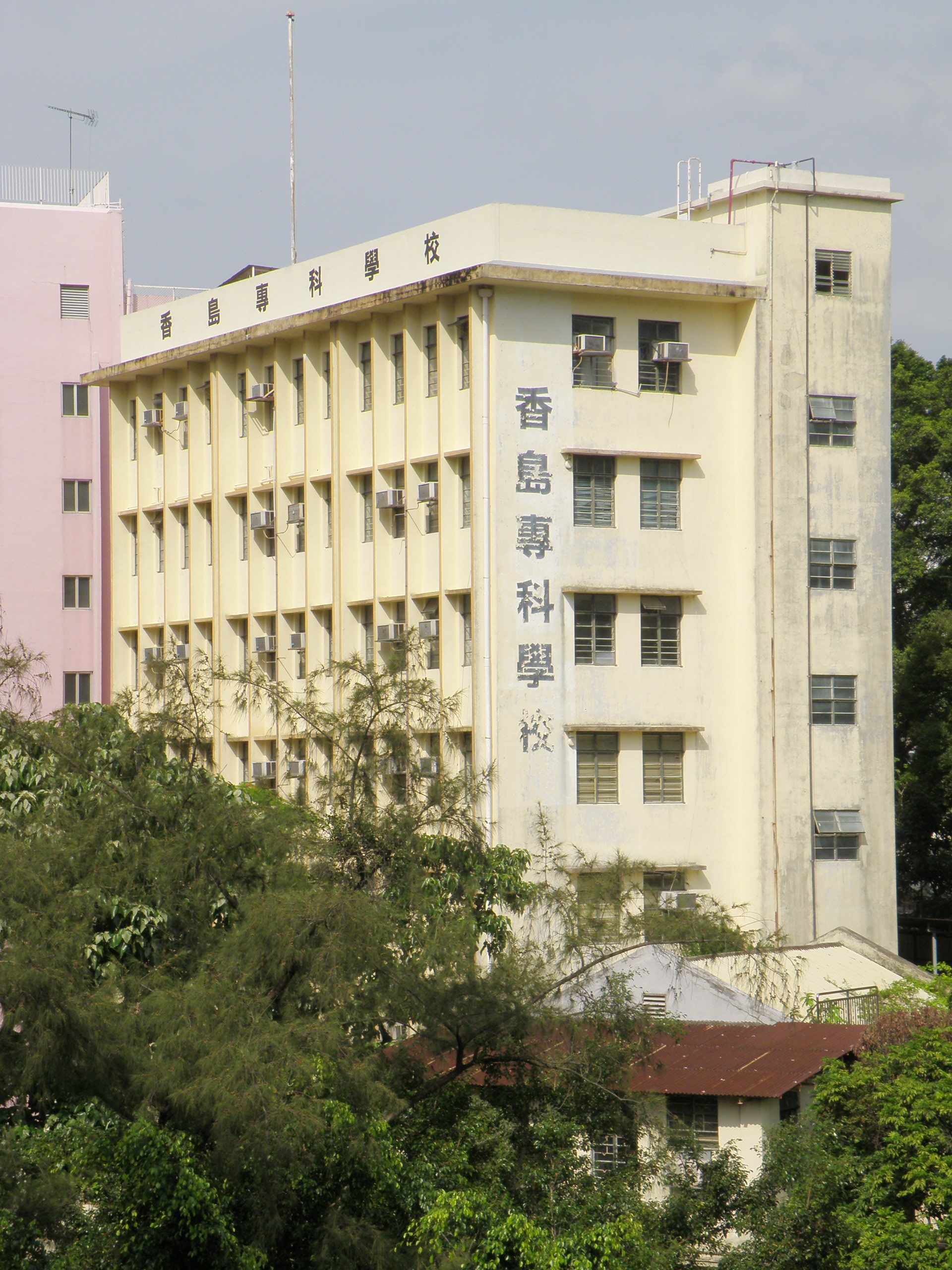 Heung To College of Professional Studies in Tai Po, Hong Kong.